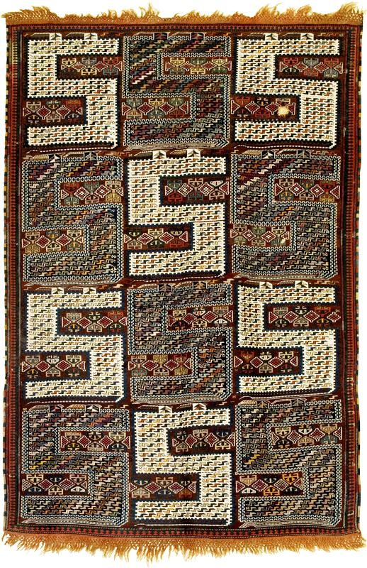 Armenian rug , No. 9717